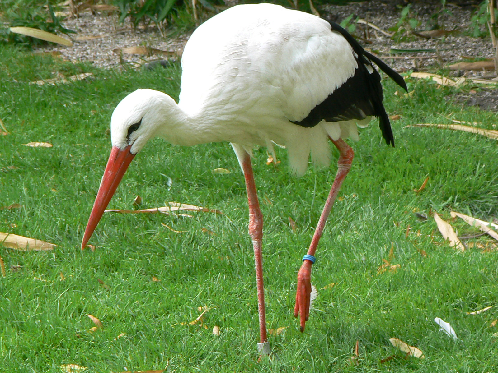 white storch